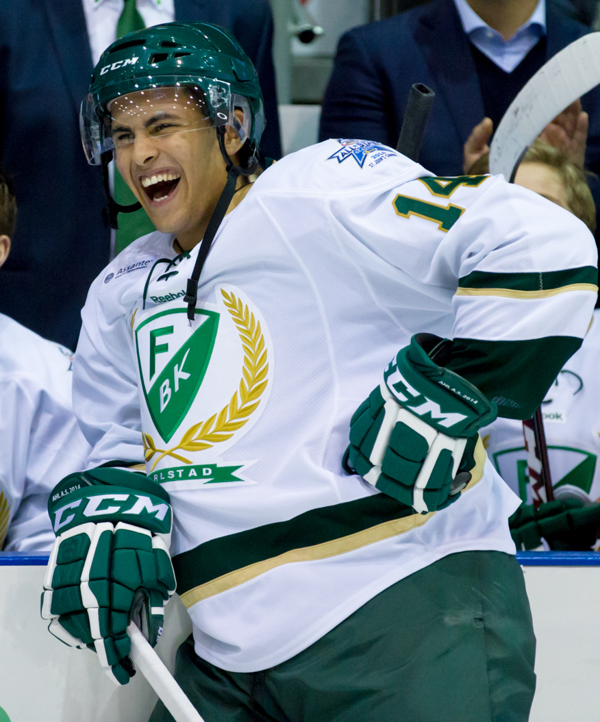 AHL Skills web (25 of 77)